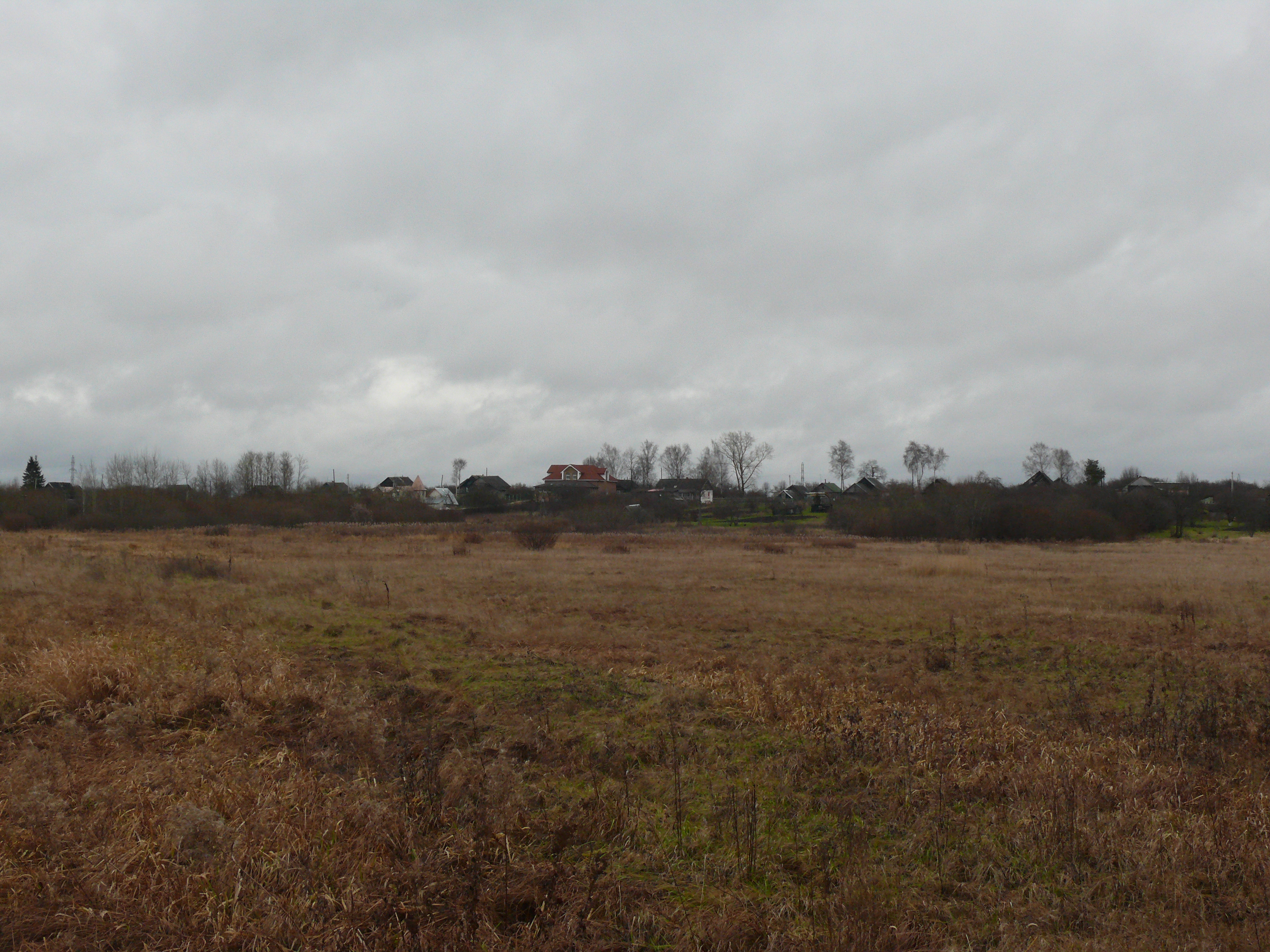 Bolshaya Viton village. Shimsky district, Novgorod oblast, Russia